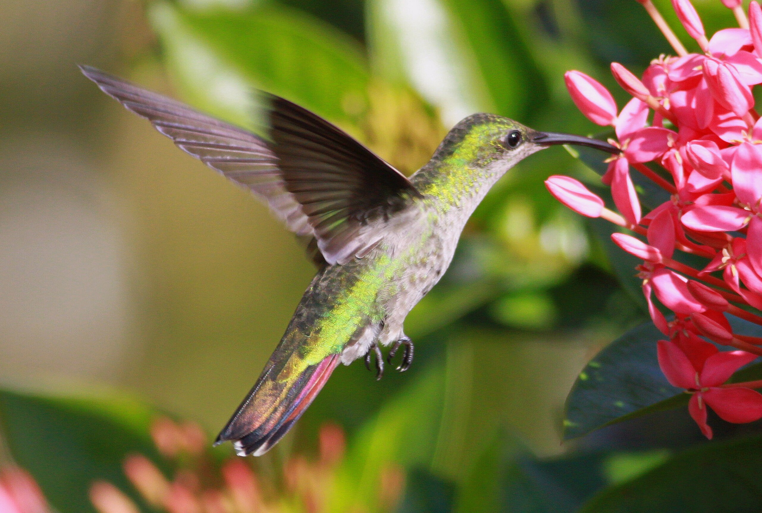 Probably, Antillean Mango. Dominican Republic, near La Romana.